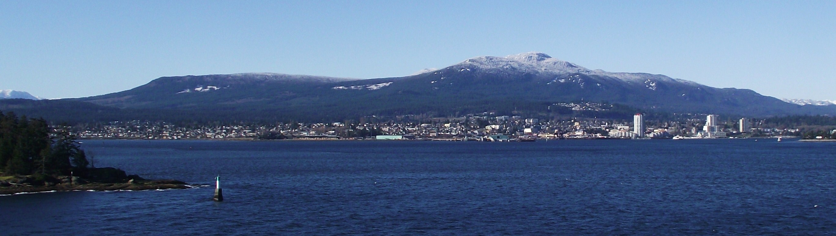 Mt. Benson and Nanaimo, BC Canada viewed from the Strait of Georgia